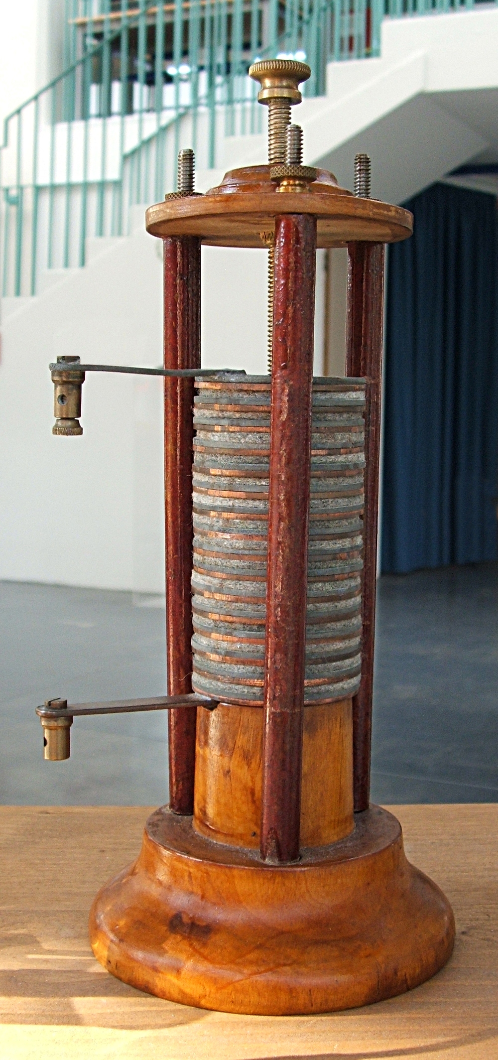 Voltaic pile